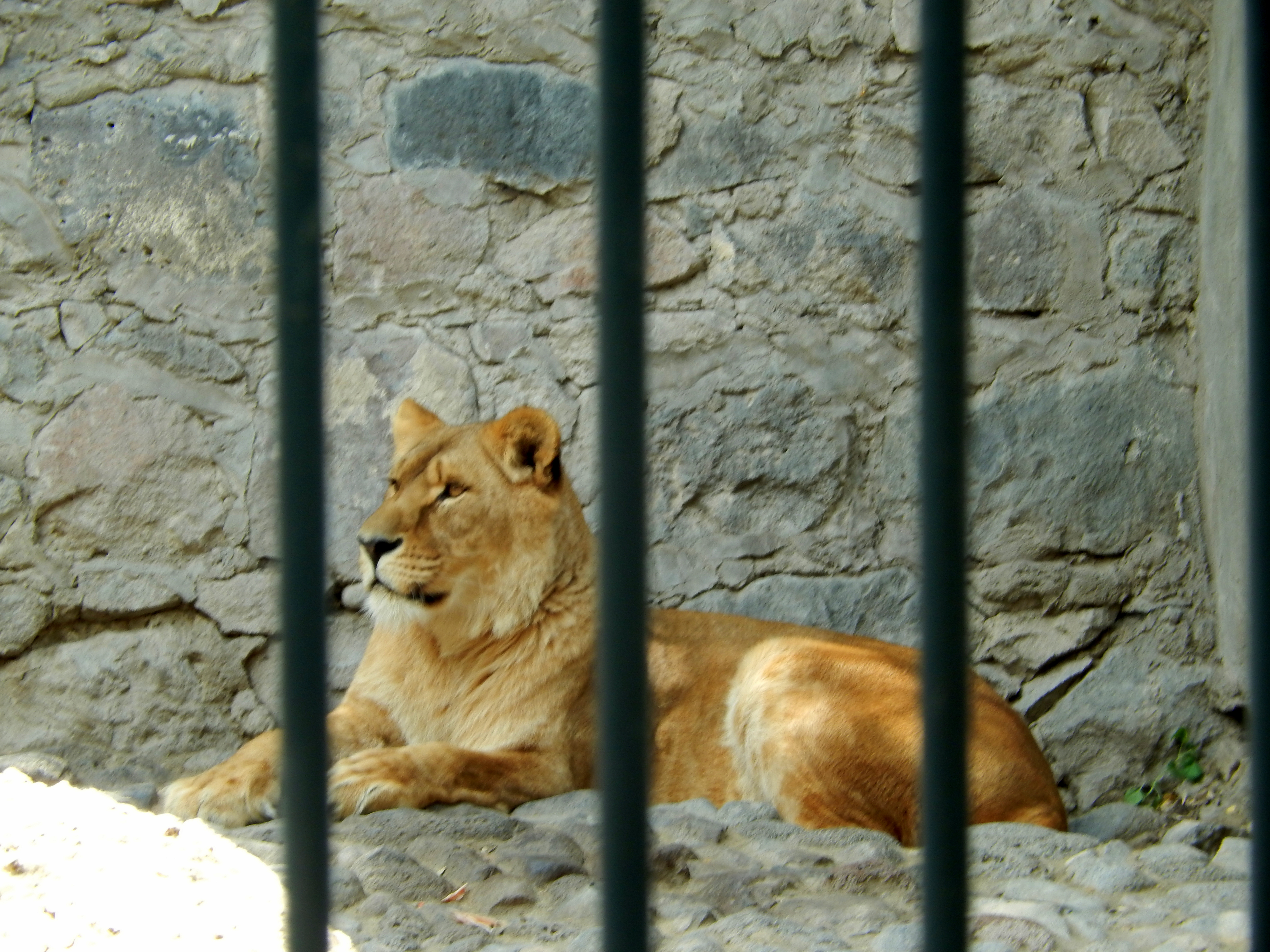 Lion Princess